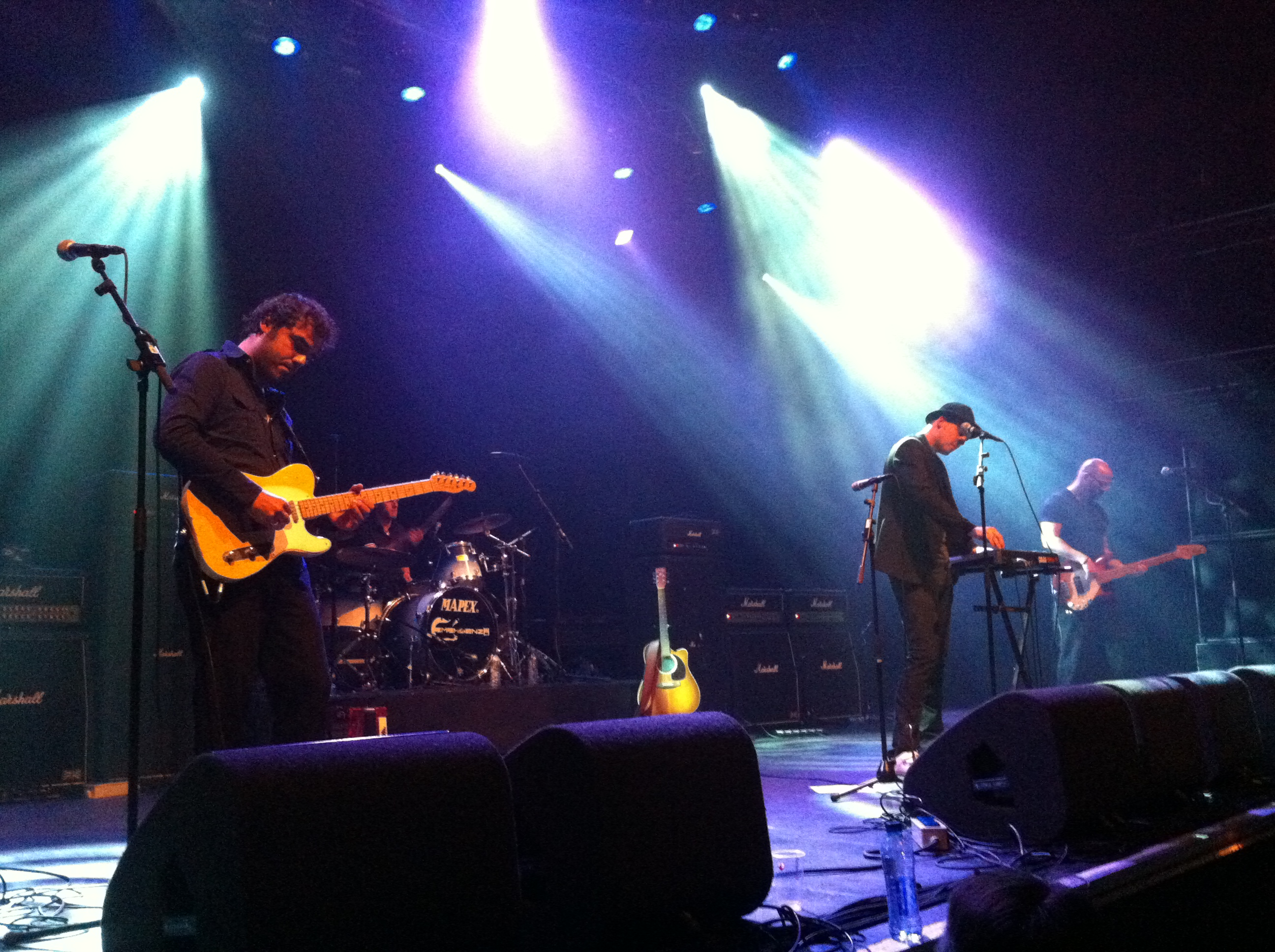 Knuckles of Frisco in 013 Tilburg